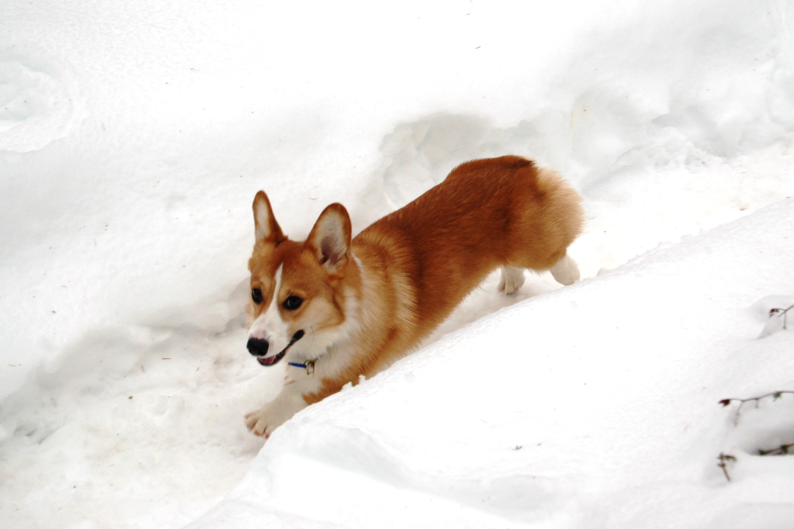 Corgi